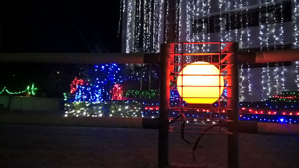 Rajshahi City Corporation established in 1976, is one of the major divisional city corporations of Bangladesh.